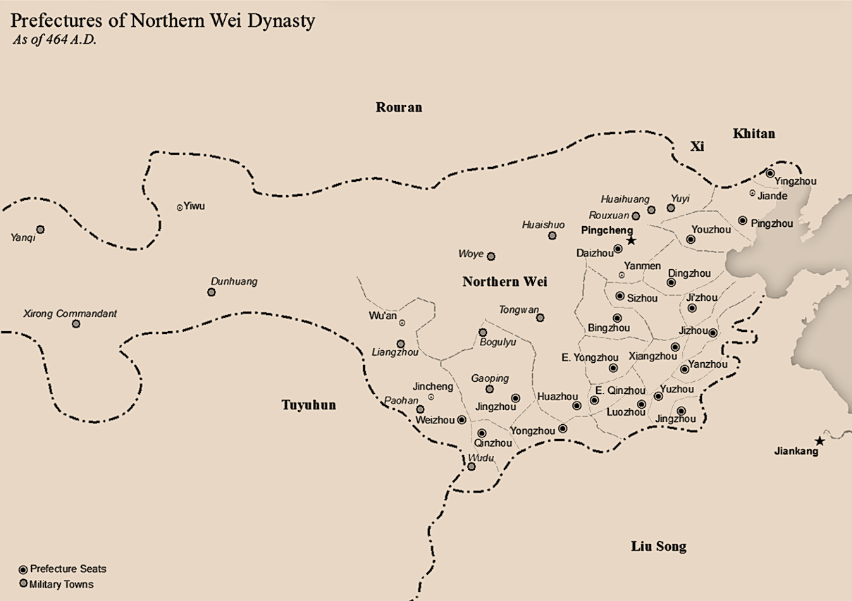 Administrative divisions of Northern Wei dynasty (Northern Dynasties) as of 464 AD